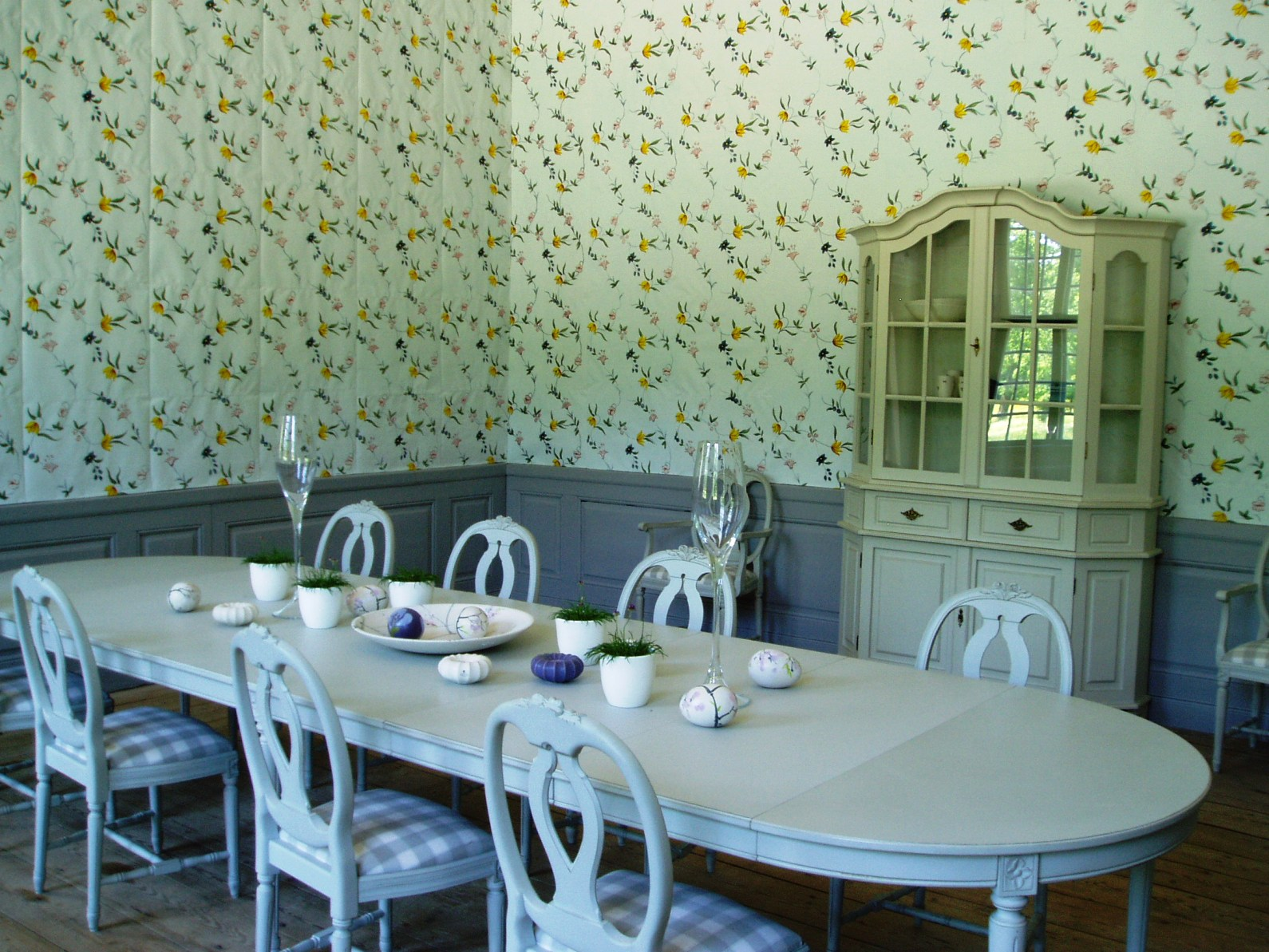 Wallpaper at Svartsjö castle, Ekerö kommun, Sweden